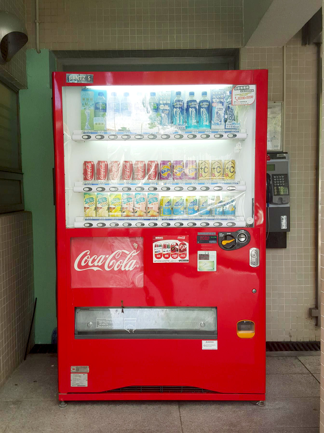 Coca-Cola vending machine accept Macau Pass